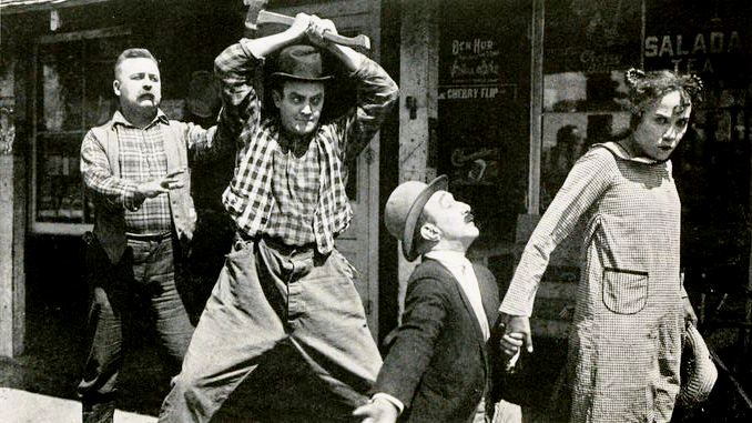 Still from the American comedy film Down on the Farm (1920) with unidentified actor, Harry Gribbon, James Finlayson, and Louise Fazenda, on page 96 of Peter Milne, Motion Picture Directing; The Facts and Theories of the Newest Art (1922).